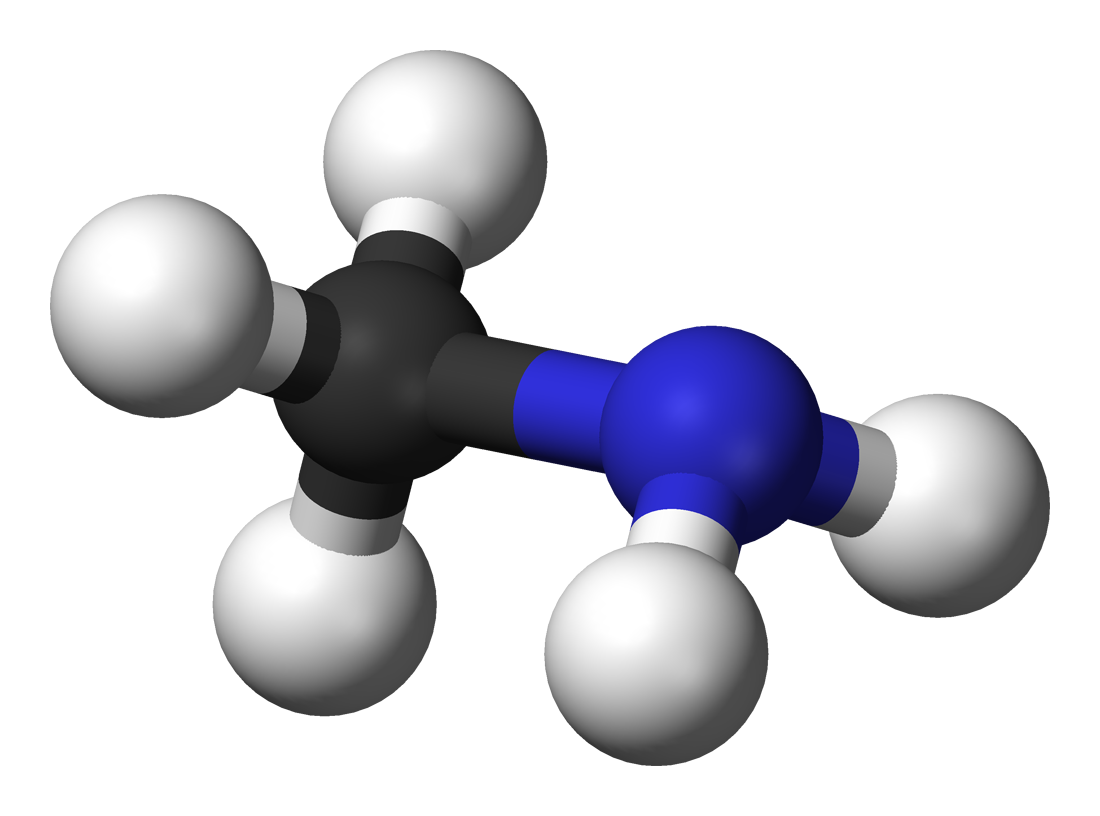 Ball and stick model of methylamine Colour code: Carbon, C: black Hydrogen, H: white Nitrogen, N: blue